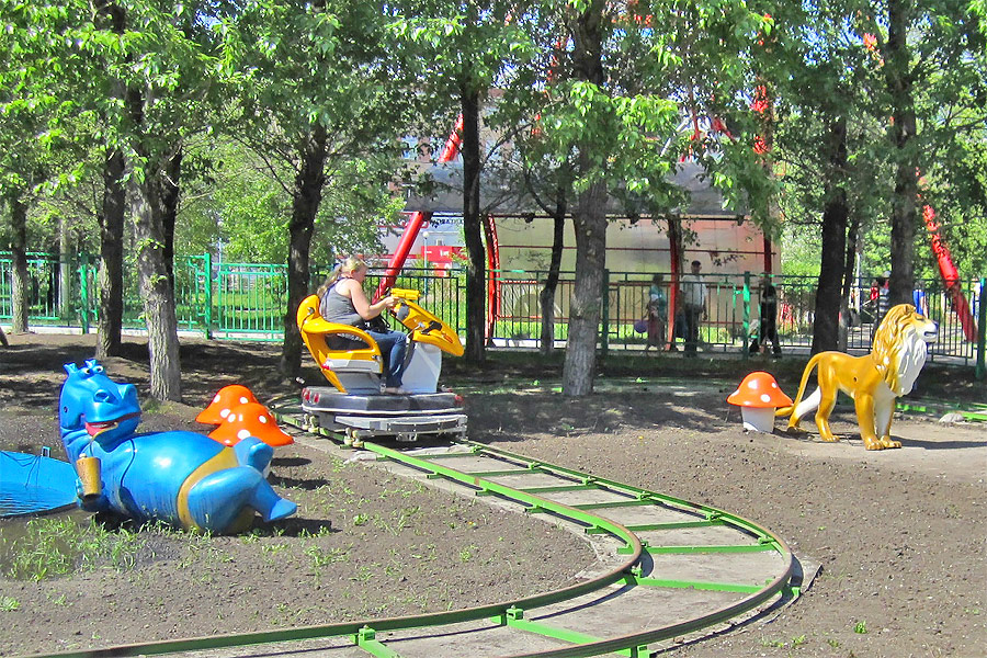 Safari